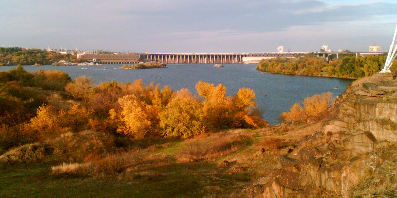 The dam of the DneproGES power plant as it's seen from Khortitsa. Self-made photo, 2005